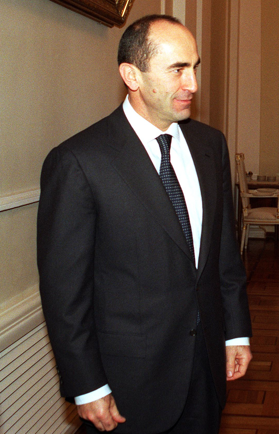 Robert Kocharyan